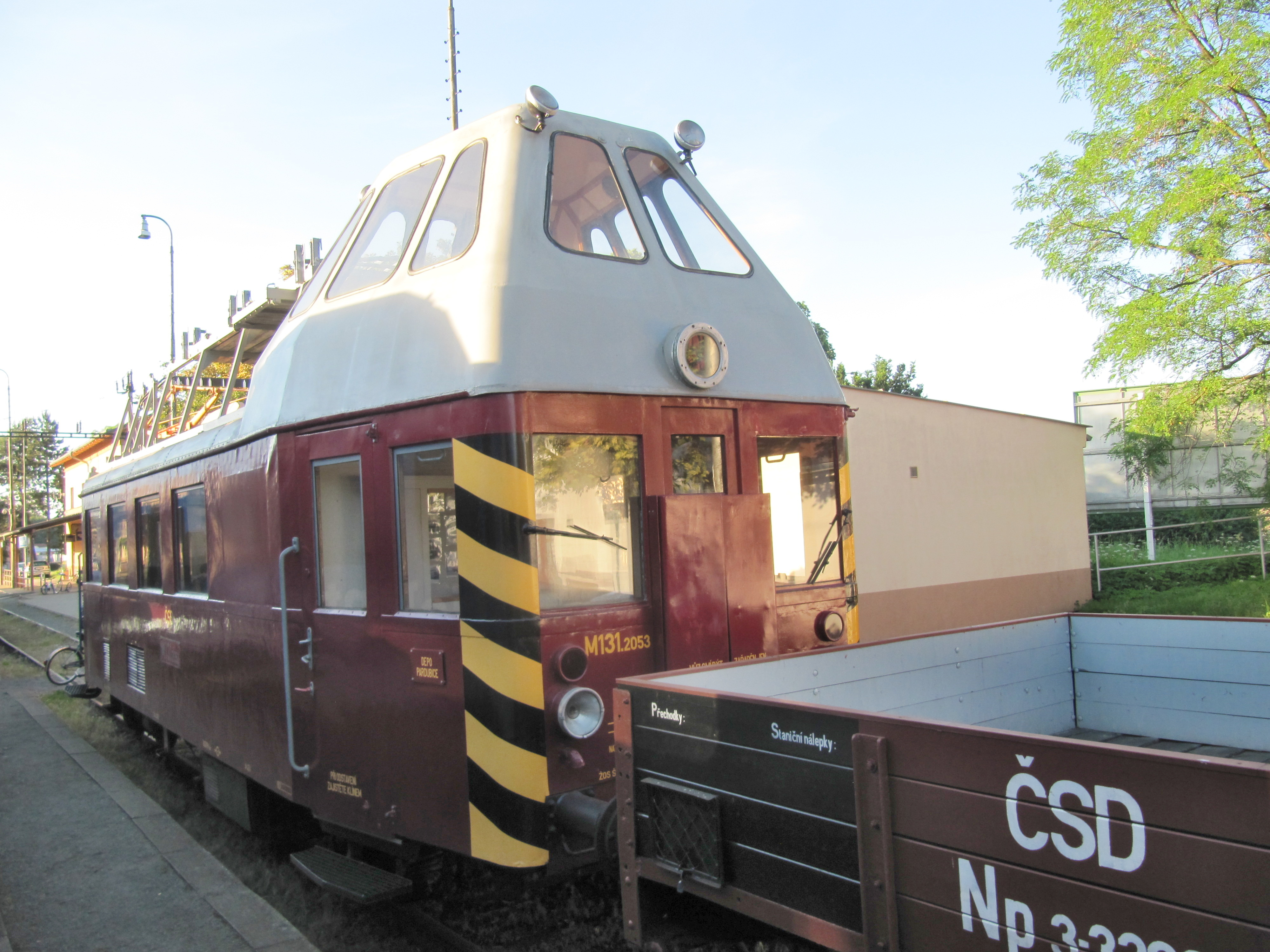 Pardubice-Rosice nad Labem, Czech Republic. Train station, railway museum.